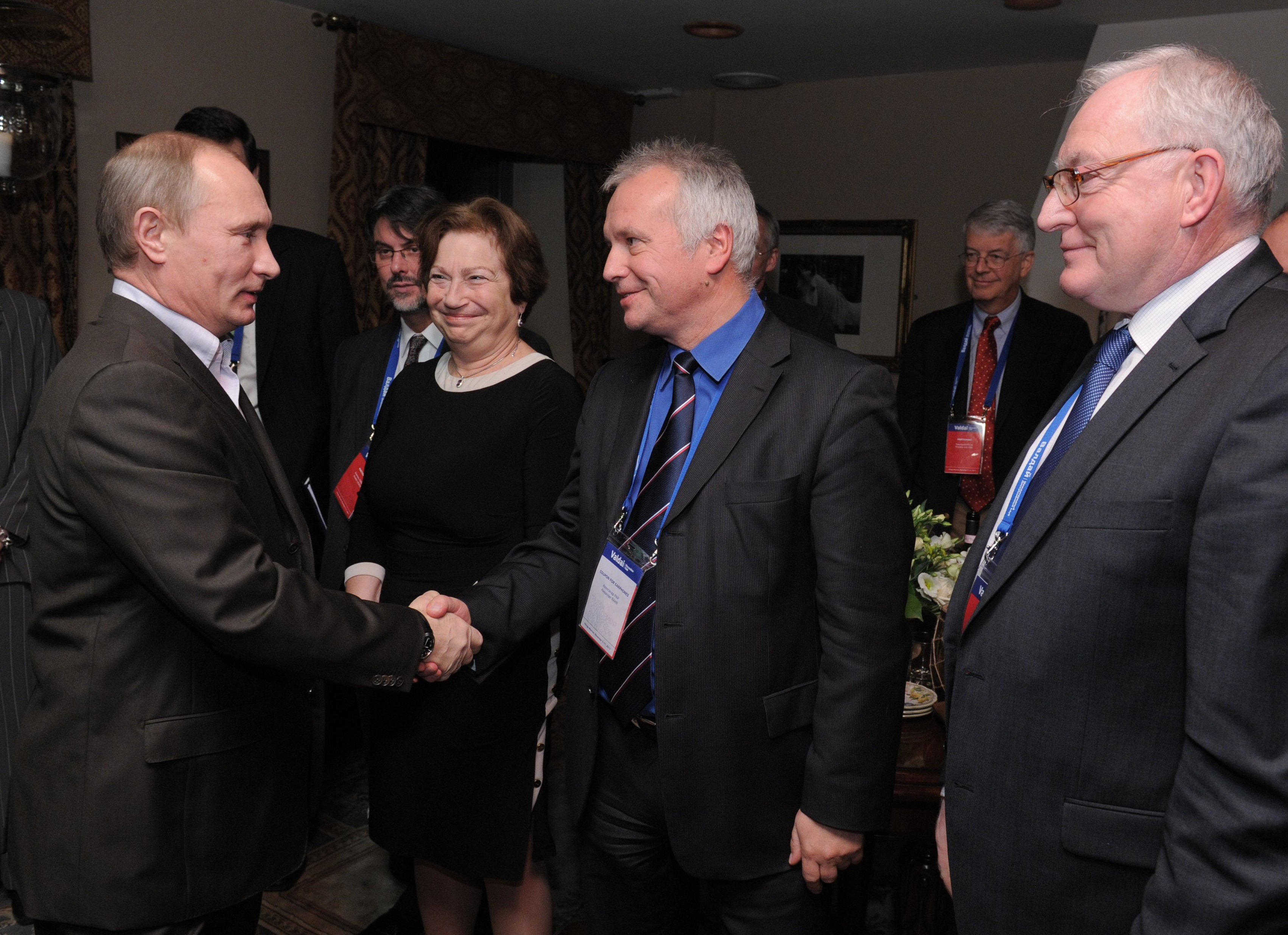 Vladimir Putin at meeting of Valdai International Discussion Club